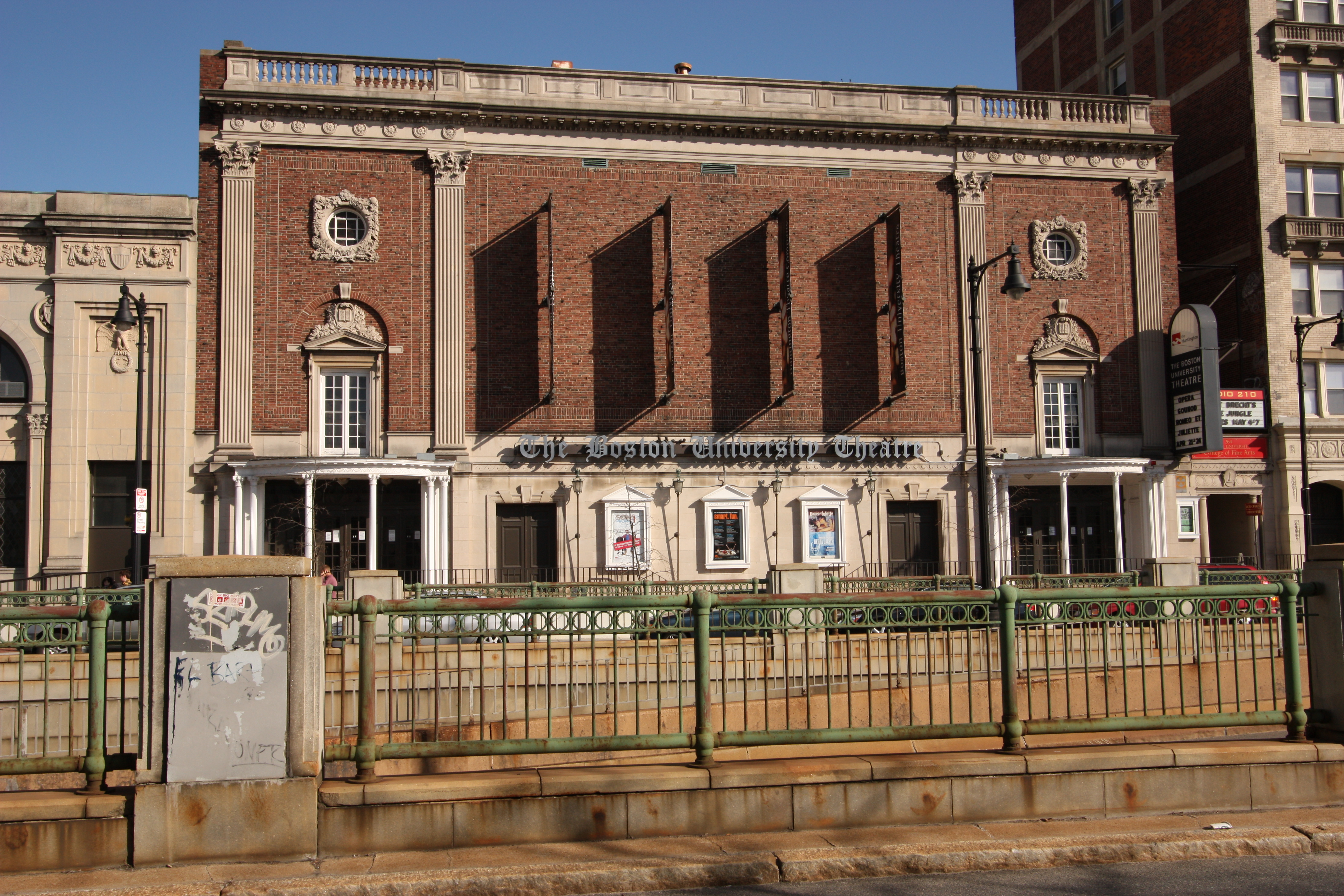 The Boston University Theater. Part of the Wikipedia Takes Boston scavenger hunt.